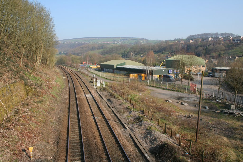 Railway, Luddendenfoot Looking north-west from Blackwood Hall Lane bridge. This view includes land that was the site of Luddendenfoot Railway Station. Branwell Bronte worked here as Clerk in Charge but was dismissed after a year due to a deficit in the accounts. On the hillside to the right is the Kershaw estate and on the far hillside is Midgley.